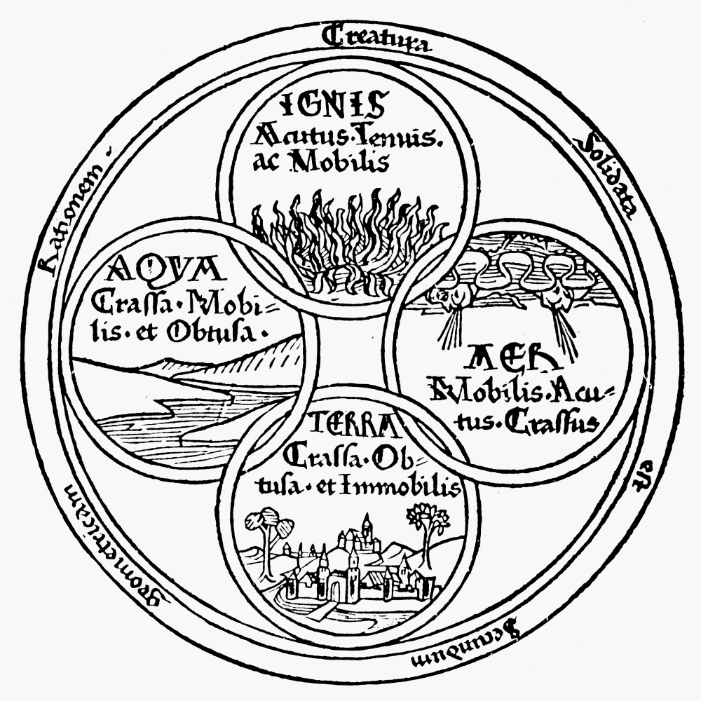 Empedocles four elements (fire, air, water and earth), woodcut from an edition of Lucretius De rerum natura, published in Brescia by Tommaso Ferrando (1472).